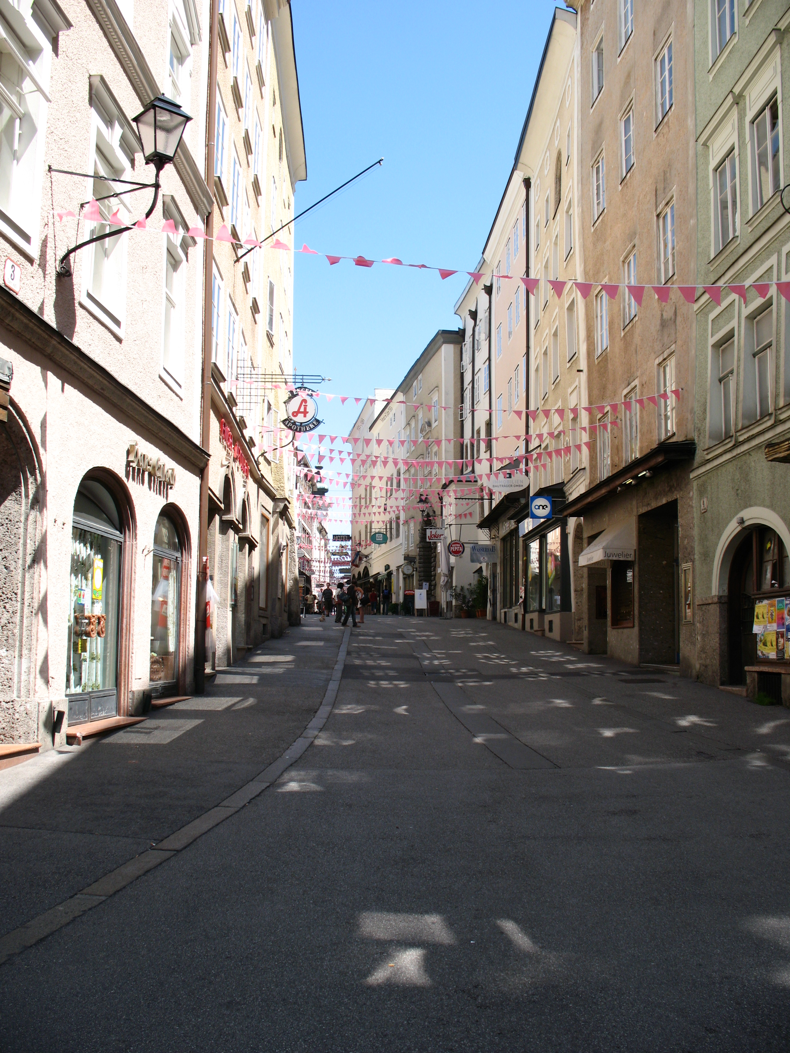 Linz Lane, Salzburg, Austria